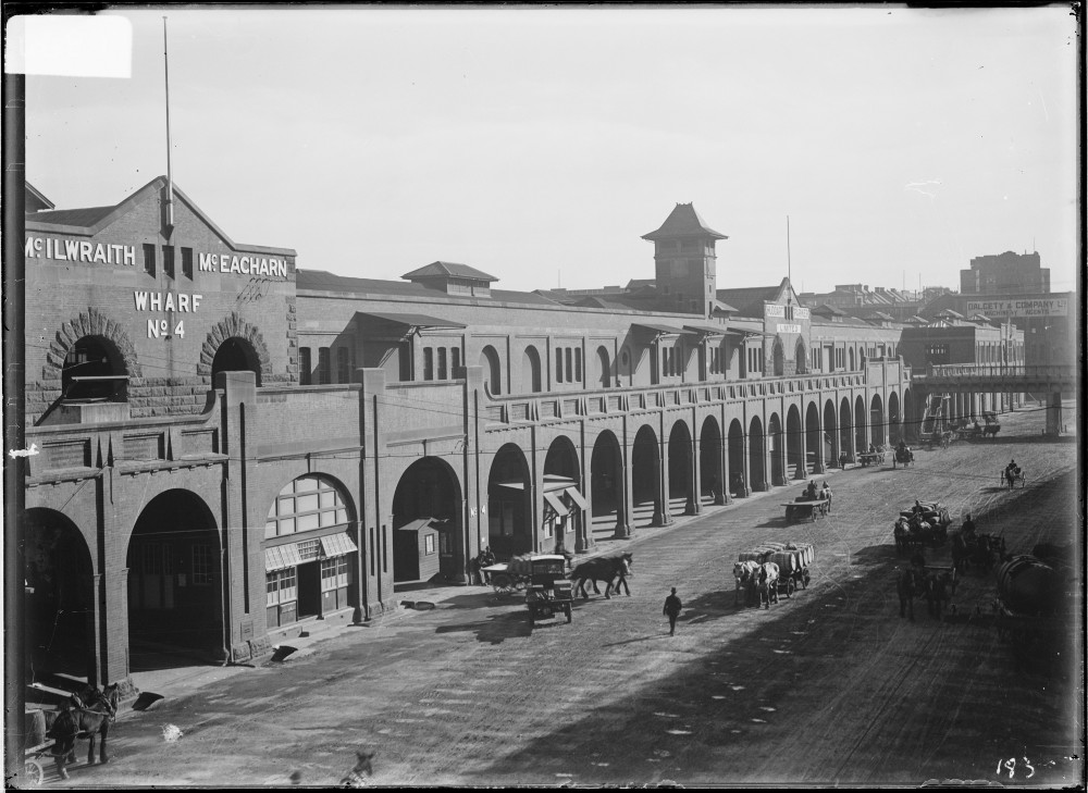 McIlwraith McEacharn warehouse on Hickson Rd, Sydney, New South Wales